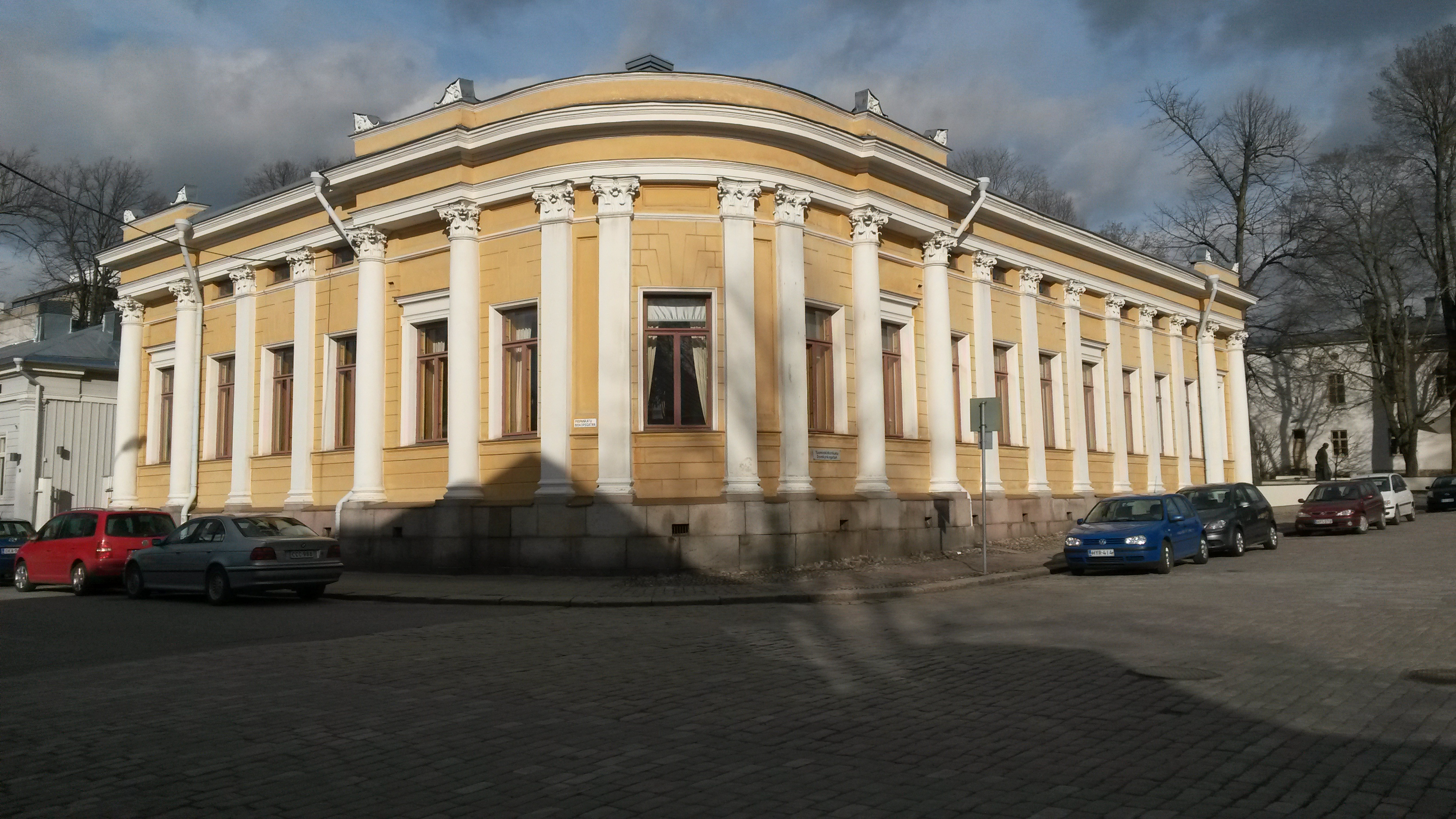 Theologicum, a building of the Åbo Akademi University. It was the main building for the faculty of theology. Theology is still taught in the building.